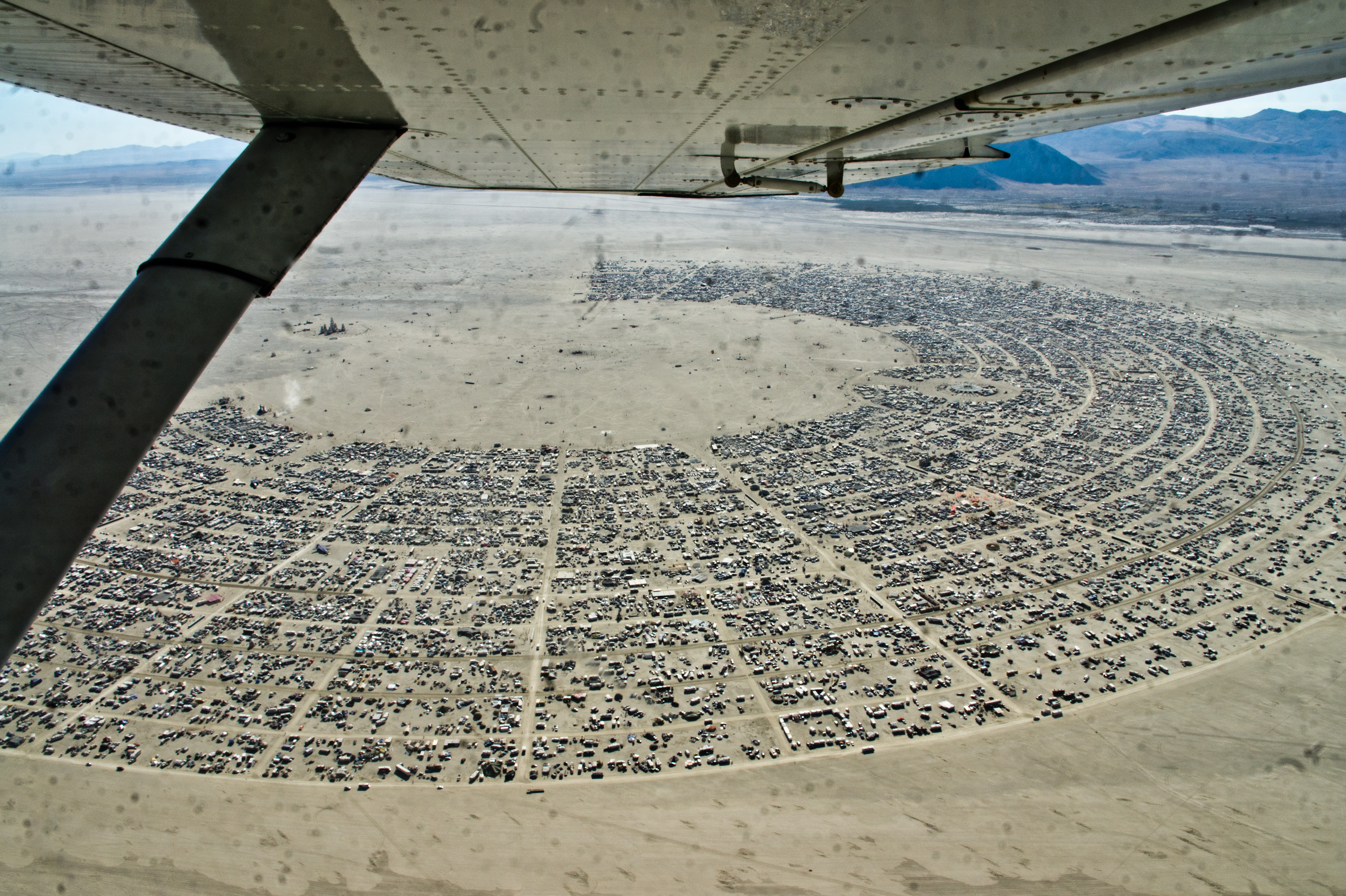 Thanks to Todd Huffman for the hookup!